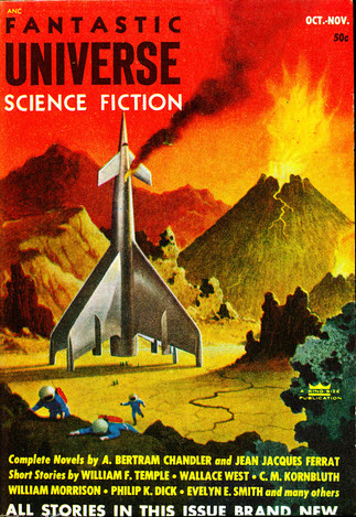 Cover of Fantastic Universe, October-November 1953